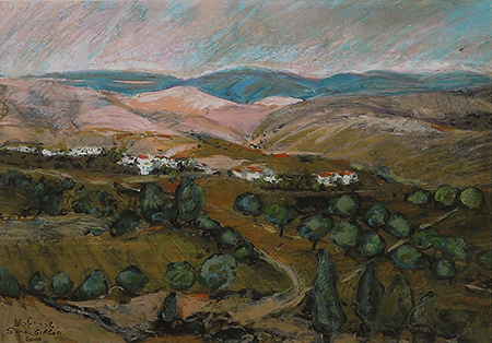 סביבת מעלה אדומים